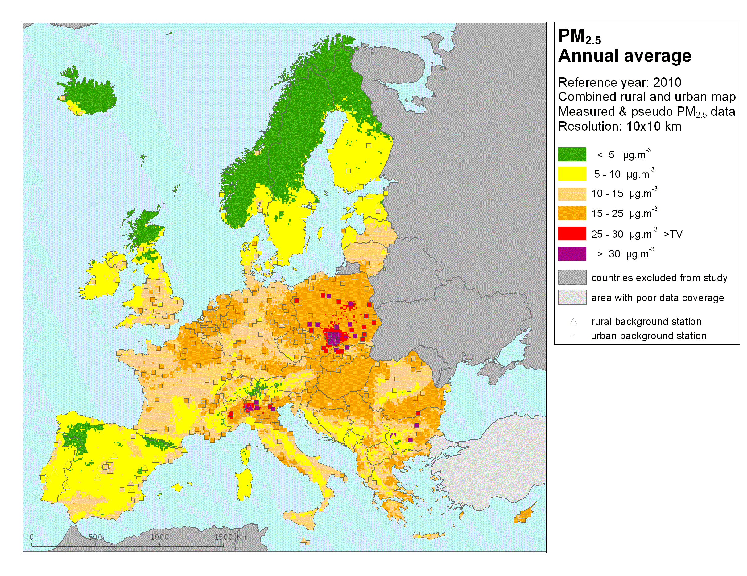 The pictures shows annual average concentration of particulate matter with aerodinamic diameter of 2.5 μm in Europe in 2010